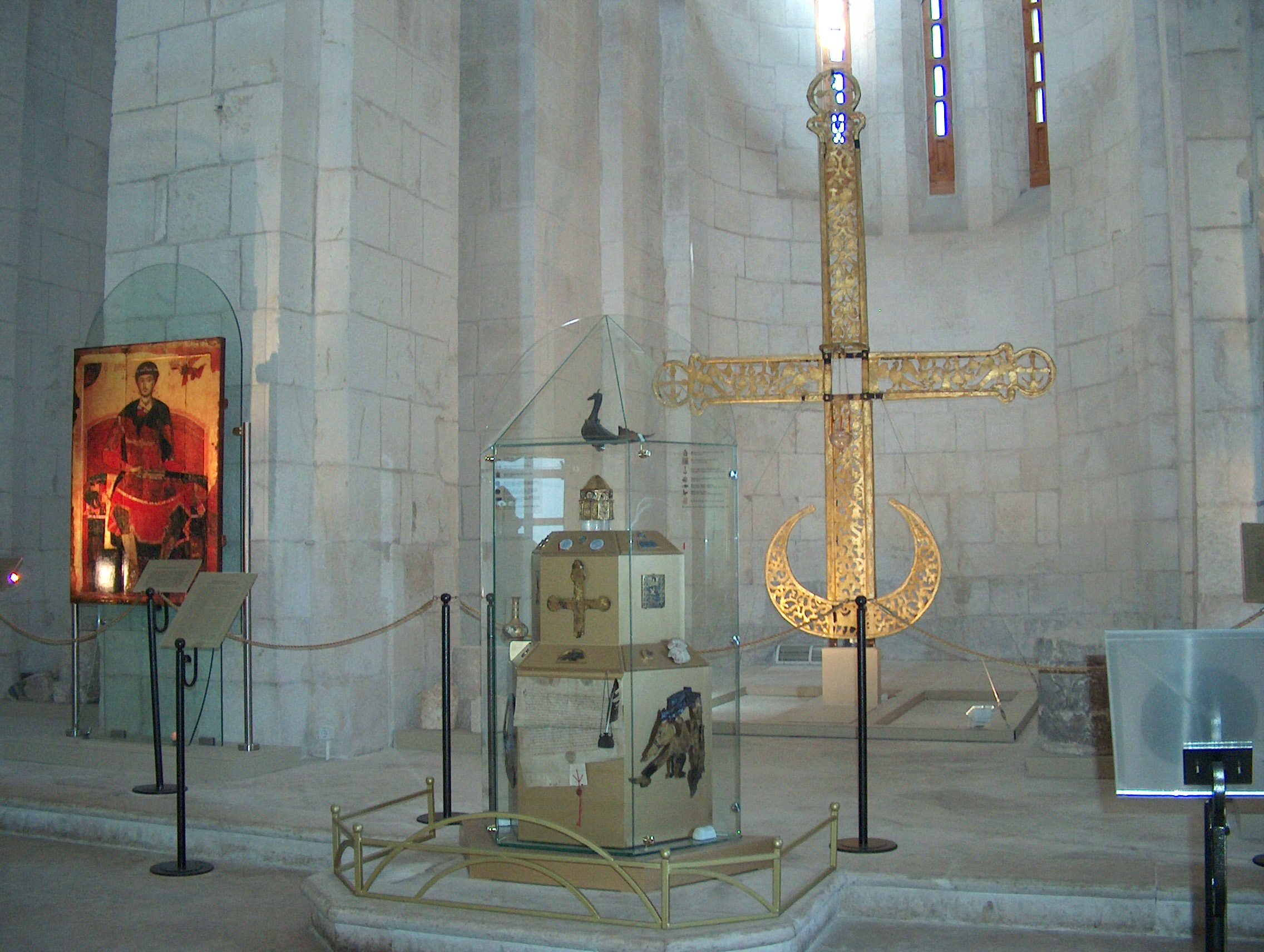 Cathedral of Saint Demetrius - Interior. Vladimir, Russia.